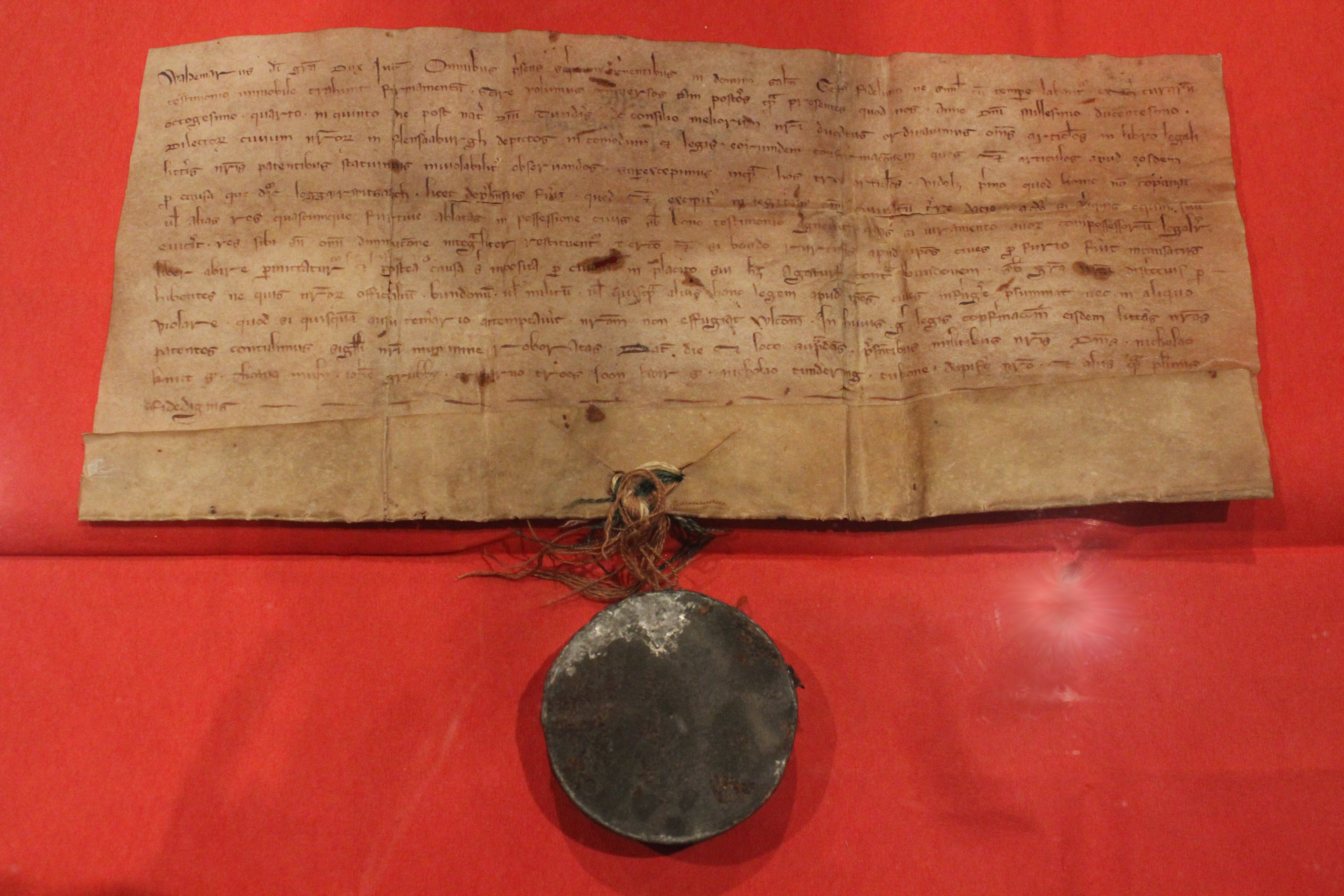 By the Town charter of (December 29) 1284 Flensburg received the Town privilege.